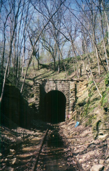 From the family photo albums.